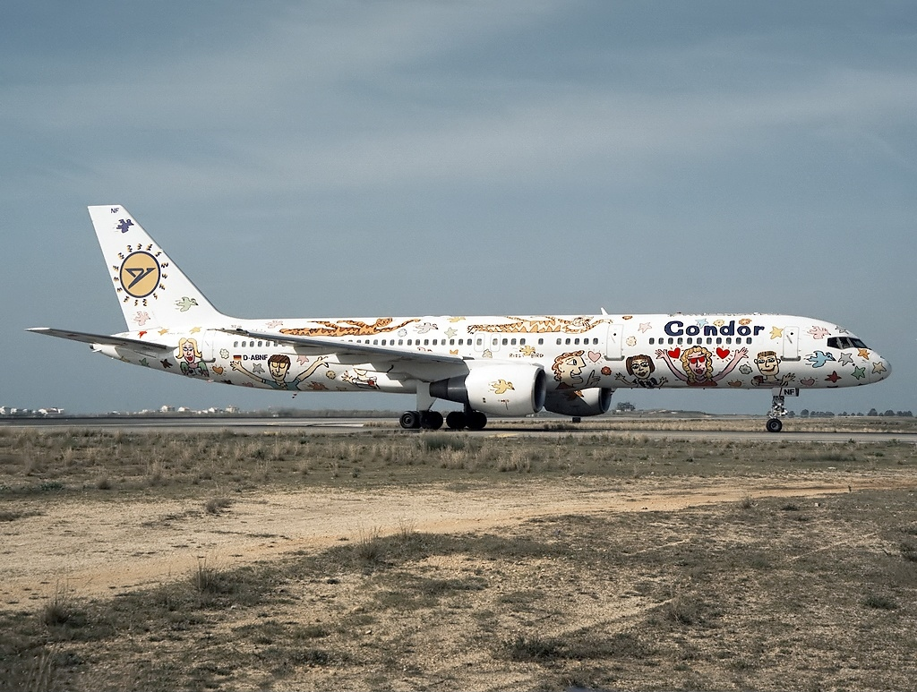 Rizzi Bird.